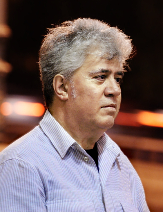 Spanish film director Pedro Almodóvar, walking in Madrid.